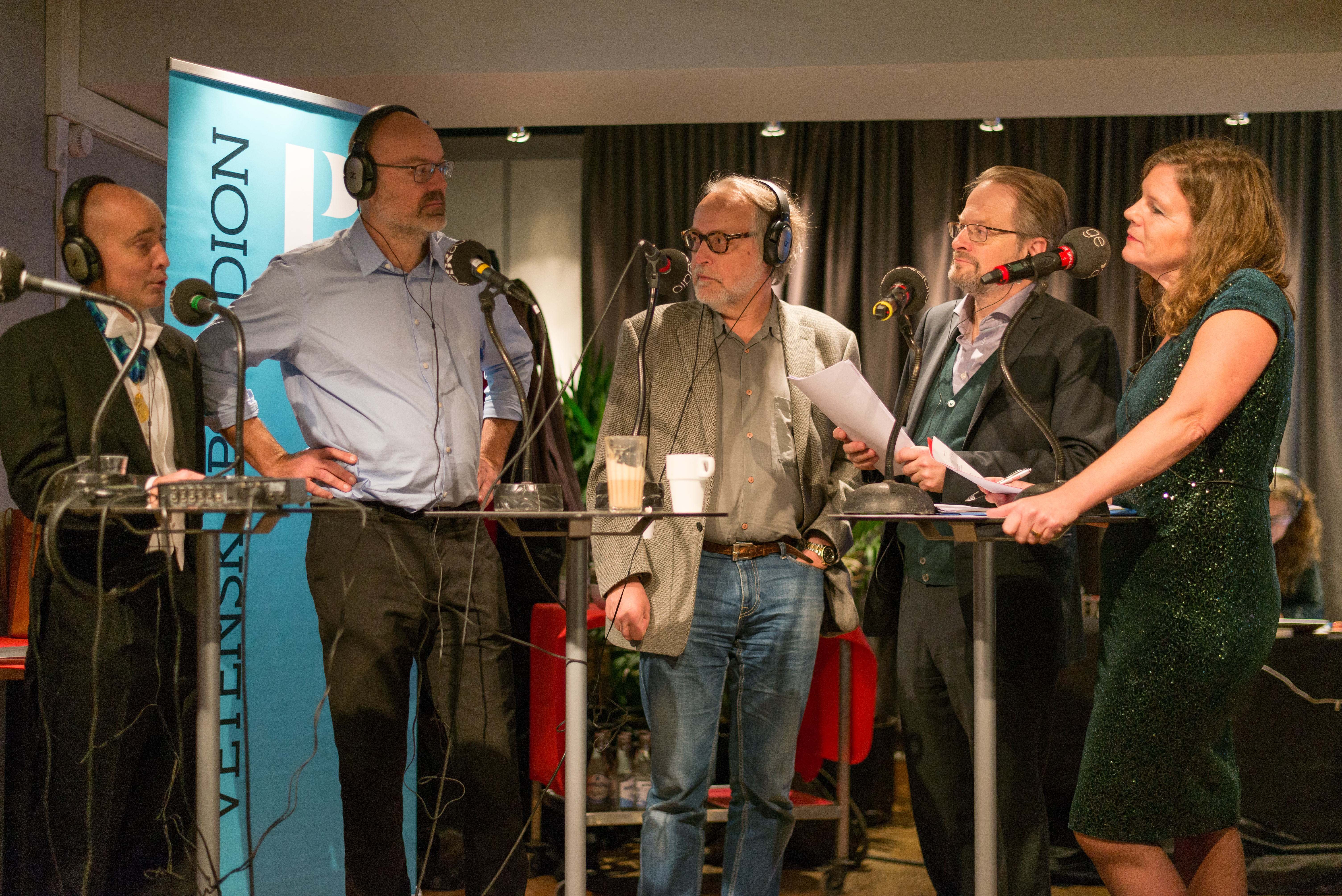 During the Nobel Day, December 10, 2016, SR P1 broadcast the Science Radio and Culture Radio directly from Kulturhuset in Stockholm.